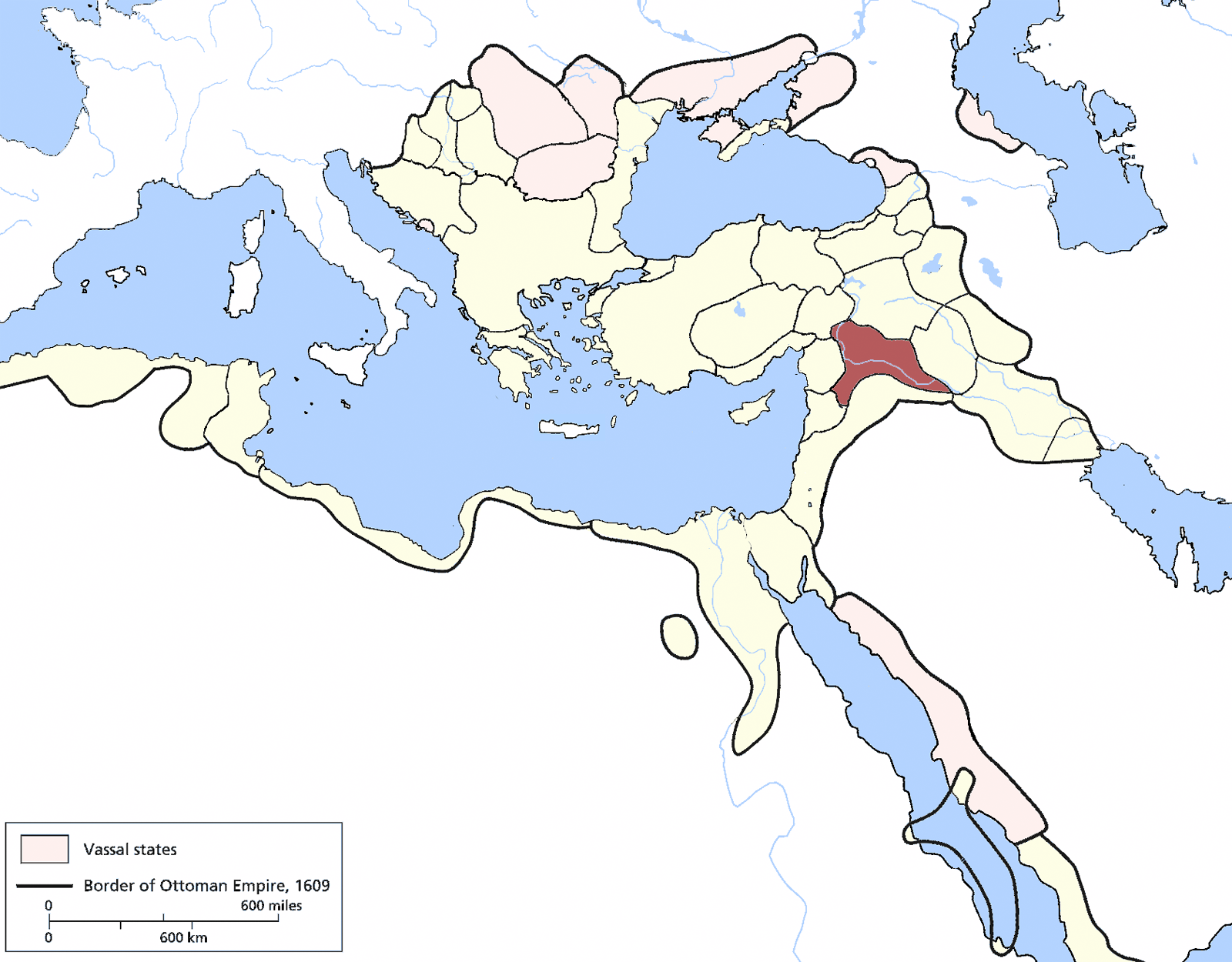 Rakka Eyalet, Ottoman Empire (1609). Source: Encyclopedia of the Ottoman Empire at Google Books By Gábor Ágoston, Bruce Alan Masters